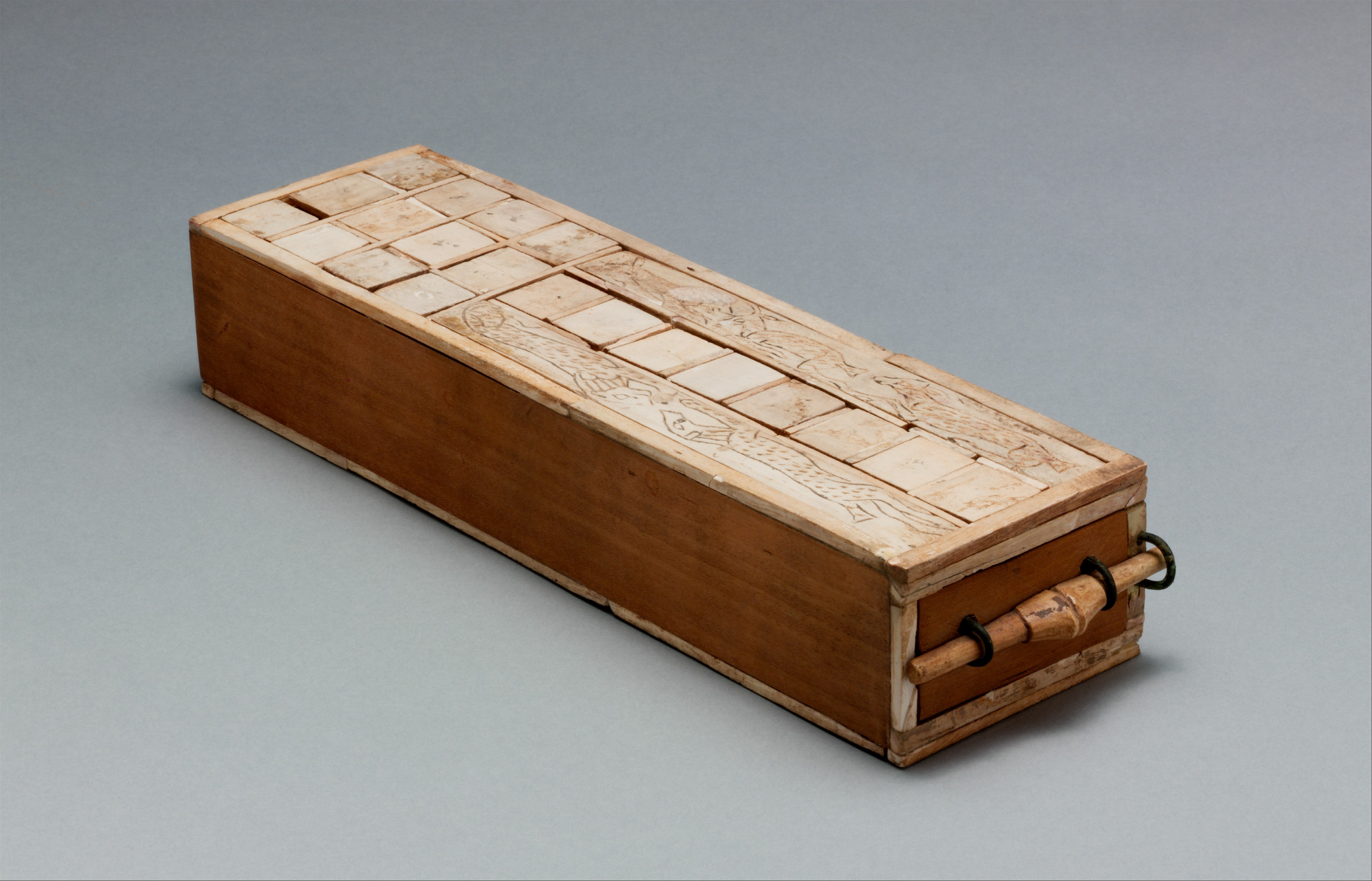 Game box, senet, gazelles, hounds, lions